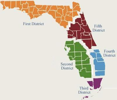 Map of the districts of the Florida District Courts of Appeal.